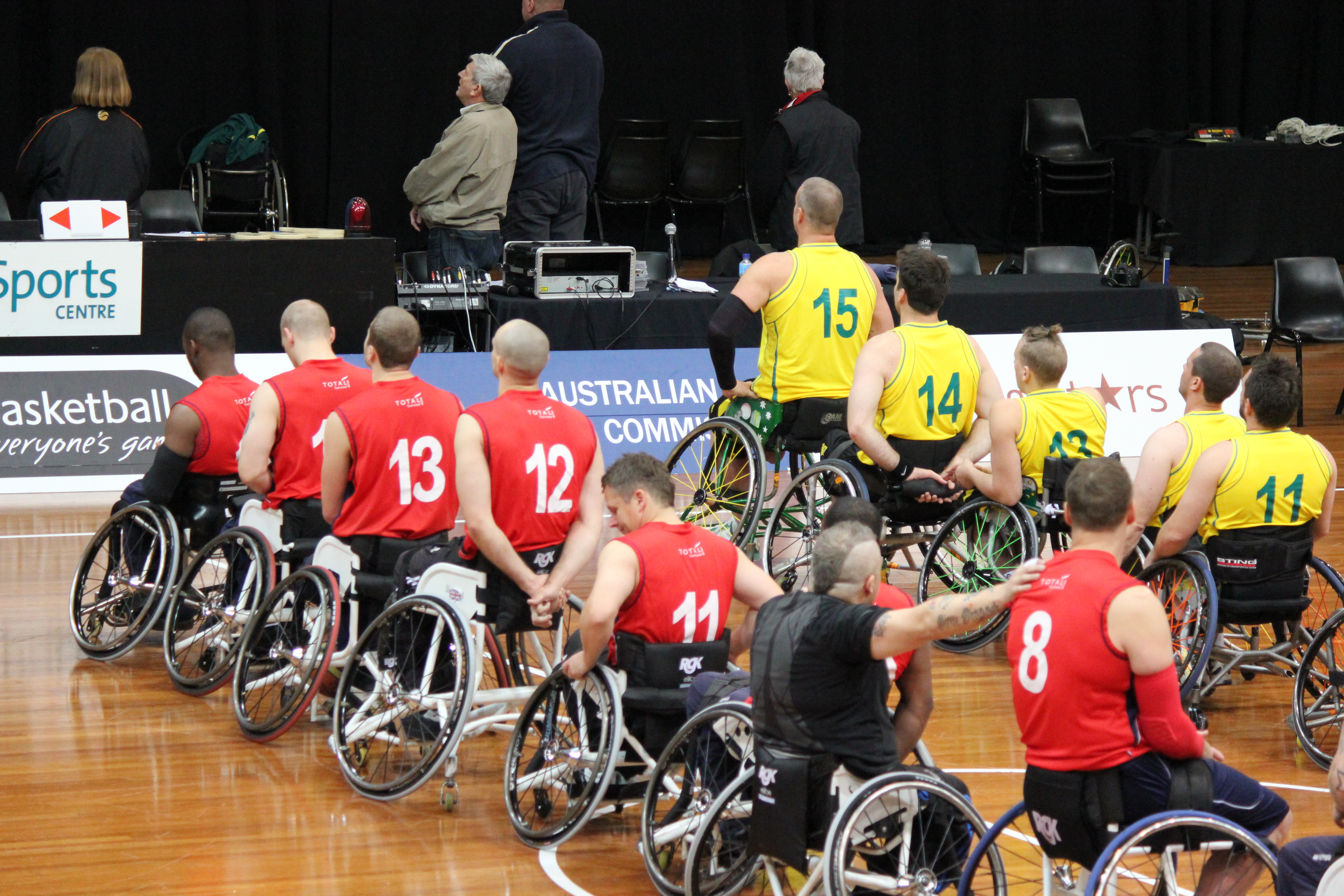 65–51 Australia men;s 19 July 2012 win over the Great Britain men's national wheelchair basketball team at Sydney;s Olympic Park. For Australia 11 Tige Simmons, 12 Grant Mizens, 13 Dylan Alcott, 14 Nick Taylor, 15 Brad Ness. For Great Britain 8 Simon Munn, 9 Joni Pollock, 10 Abdi Jama, 11 Matt Bryne, 12 Ian Sagar, 13 Kyle Marsh, 14 John Hall, 15 Ade Oregembe